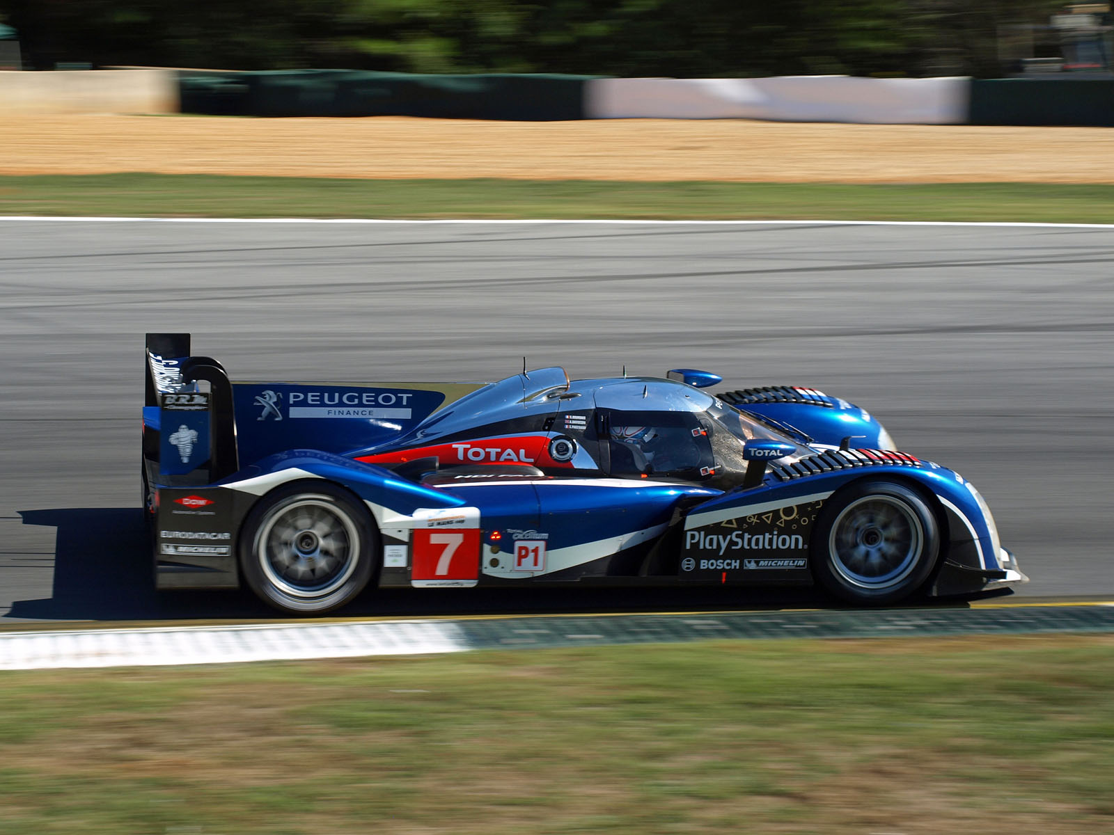 Anthony Davidson driving the Peugeot Sport Peugeot 908 in qualifying for the 2011 Petit Le Mans at Road Atlanta.